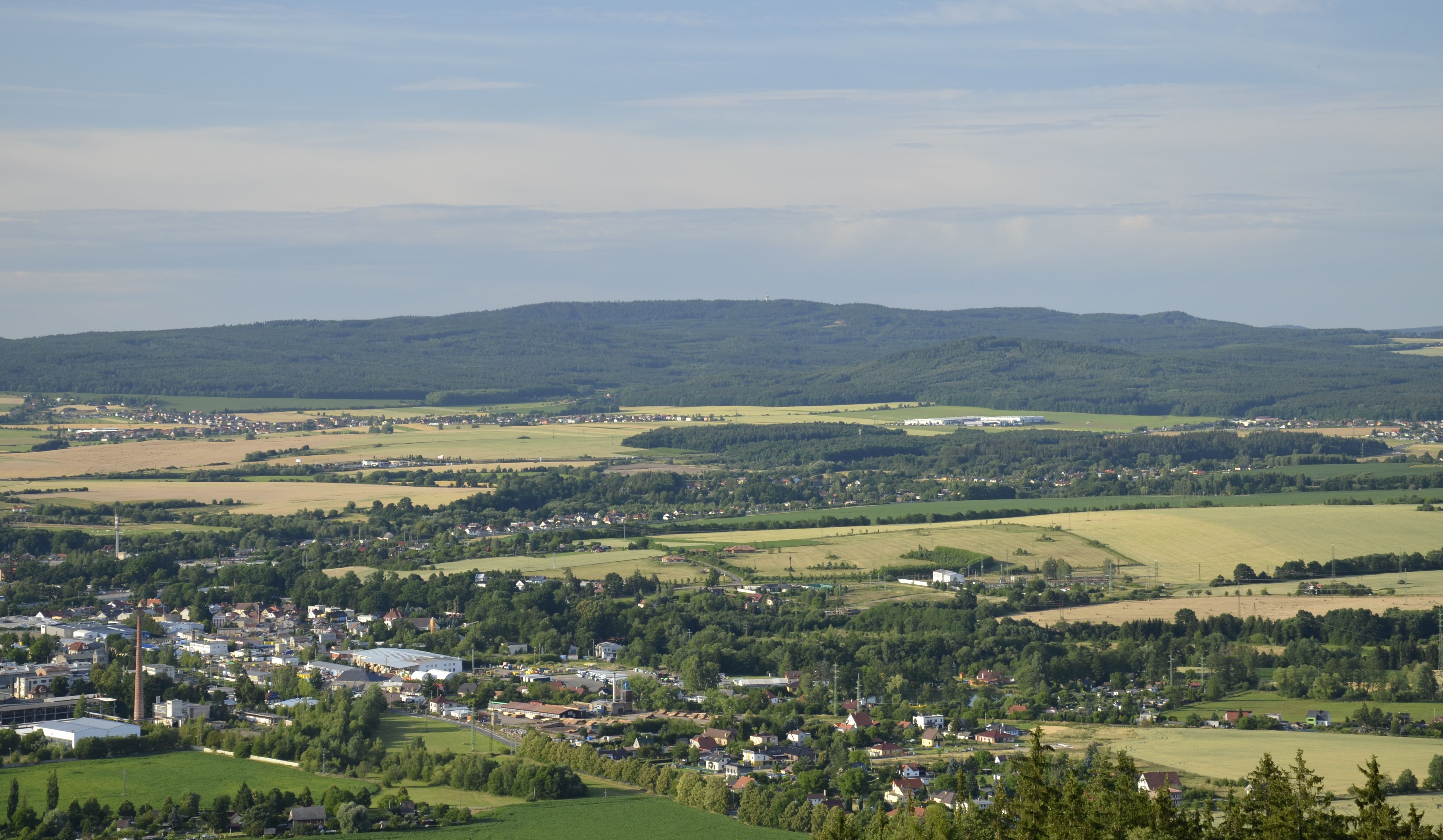 Radeč, ridge, Křivoklát Highlands, Czech Republic